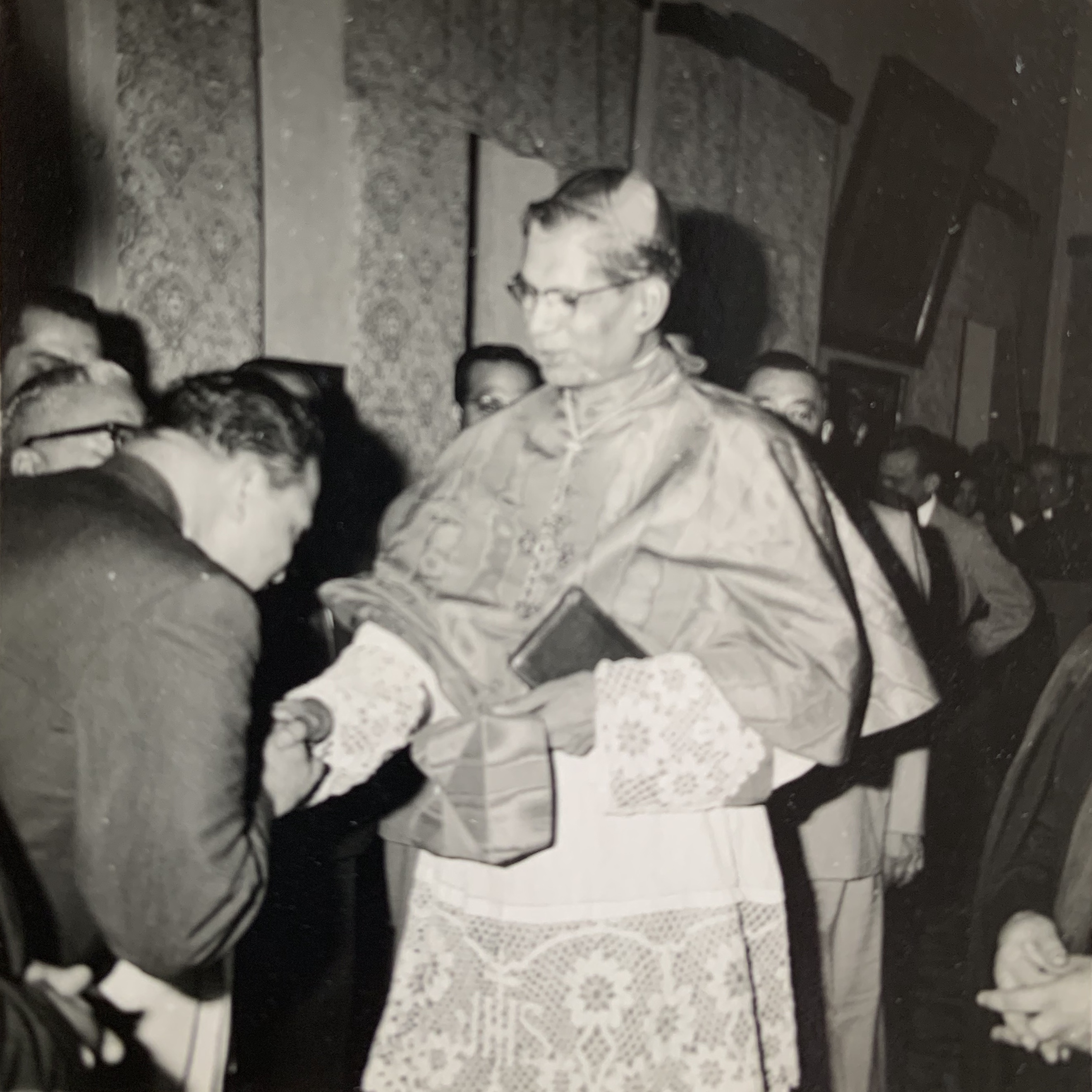 Cardinal Valerian Gracias from India visiting Malta, greeted by members of the Maltese Indian community (Fatechand Tarachand Nandwani) at the La Valette Band Club. Probably in 1958, on the margin of the conclave which elected John XXIII. Courtesy of Raj Vaswani, Gopaldas, Malta